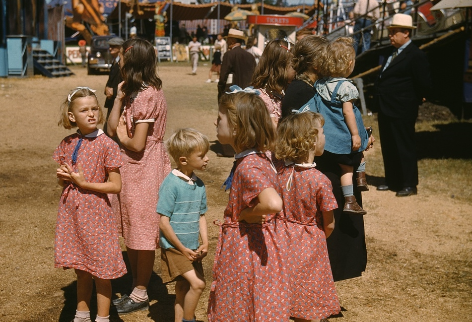 Title: At the Vermont state fair, Rutland